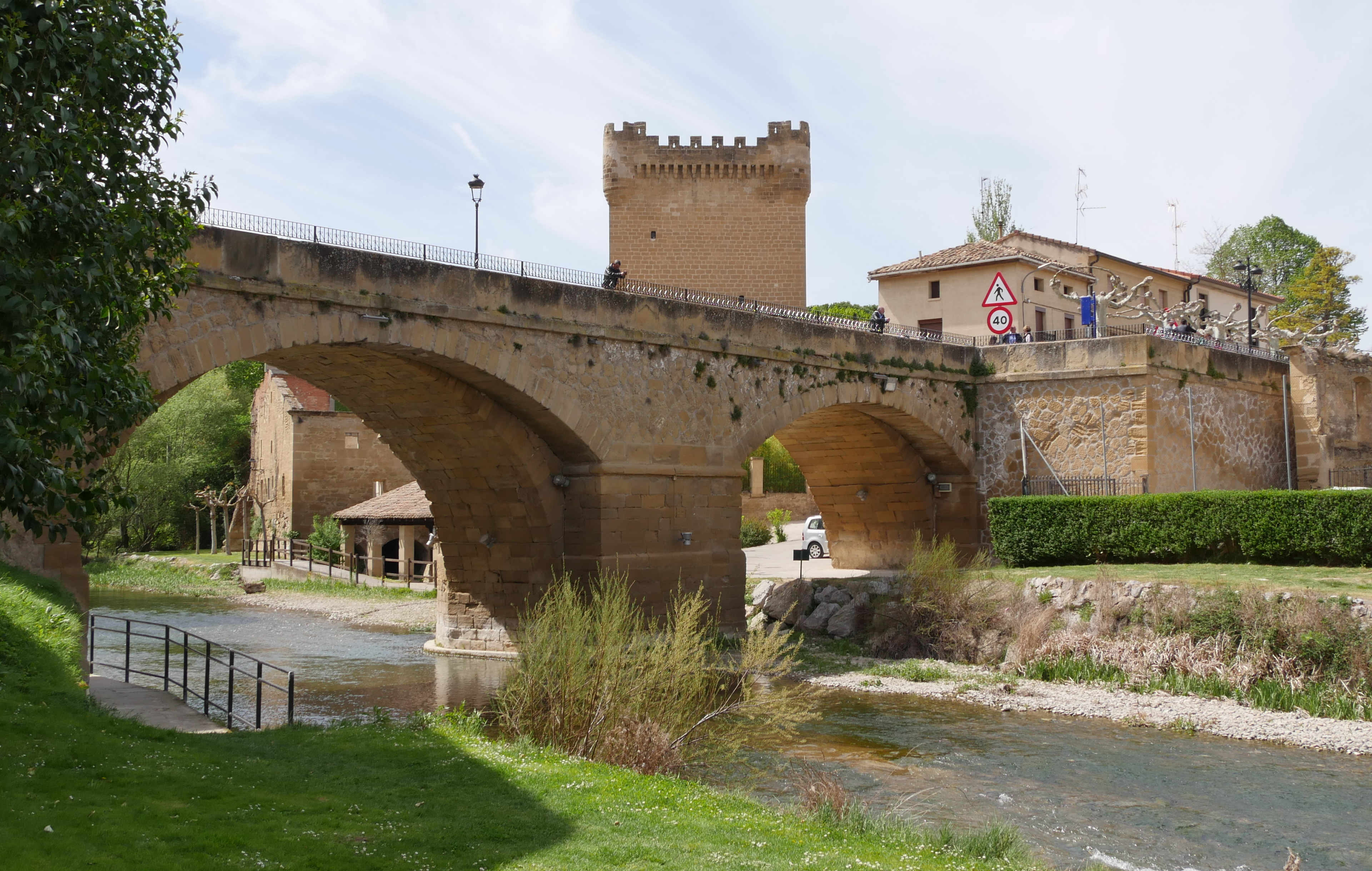 Bridge over the Tirón River at Cuzcurrita de Río Tirón in La Rioja, Spain. The Castle can be seen in the background.